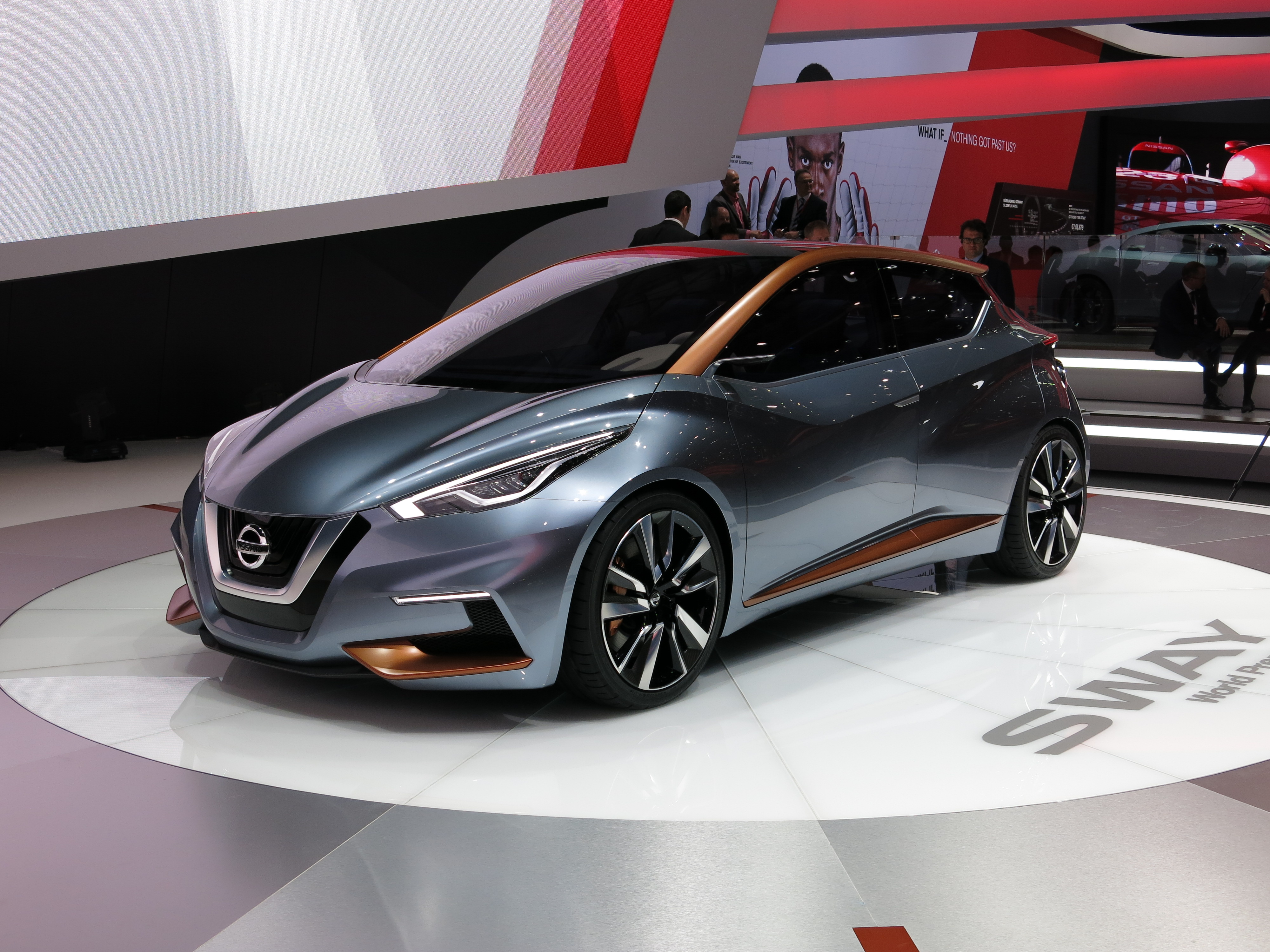 Geneva Motor Show 2015 (photo taken on the first press day)